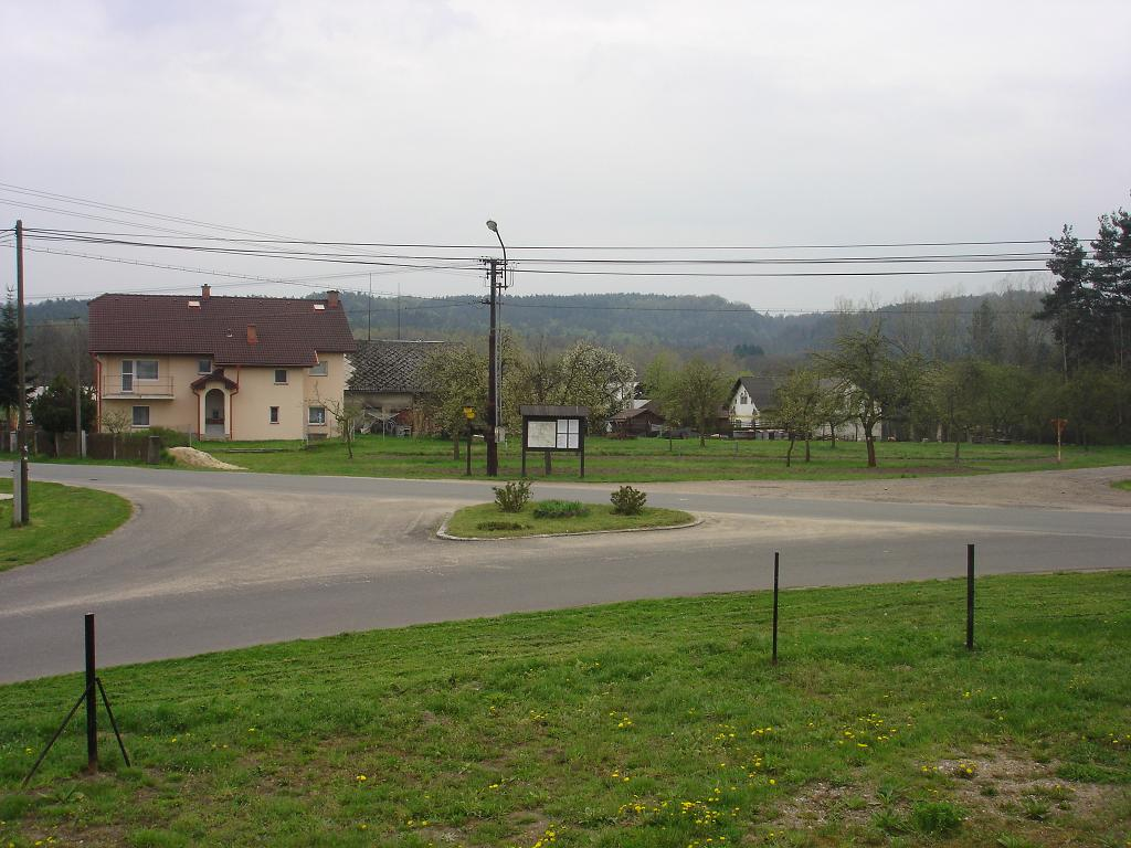 Cross-roads in Žehrov